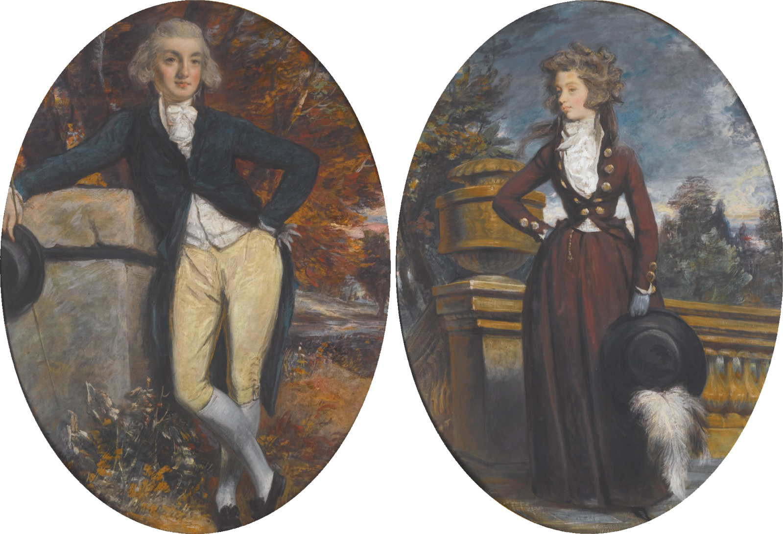 John Savile, 2nd earl of Mexborough and Lifford (1761-1830), and his wife Elizabeth (1762-1831) pastel and gouache over pencil on paper 94 by 70 cm before 1805